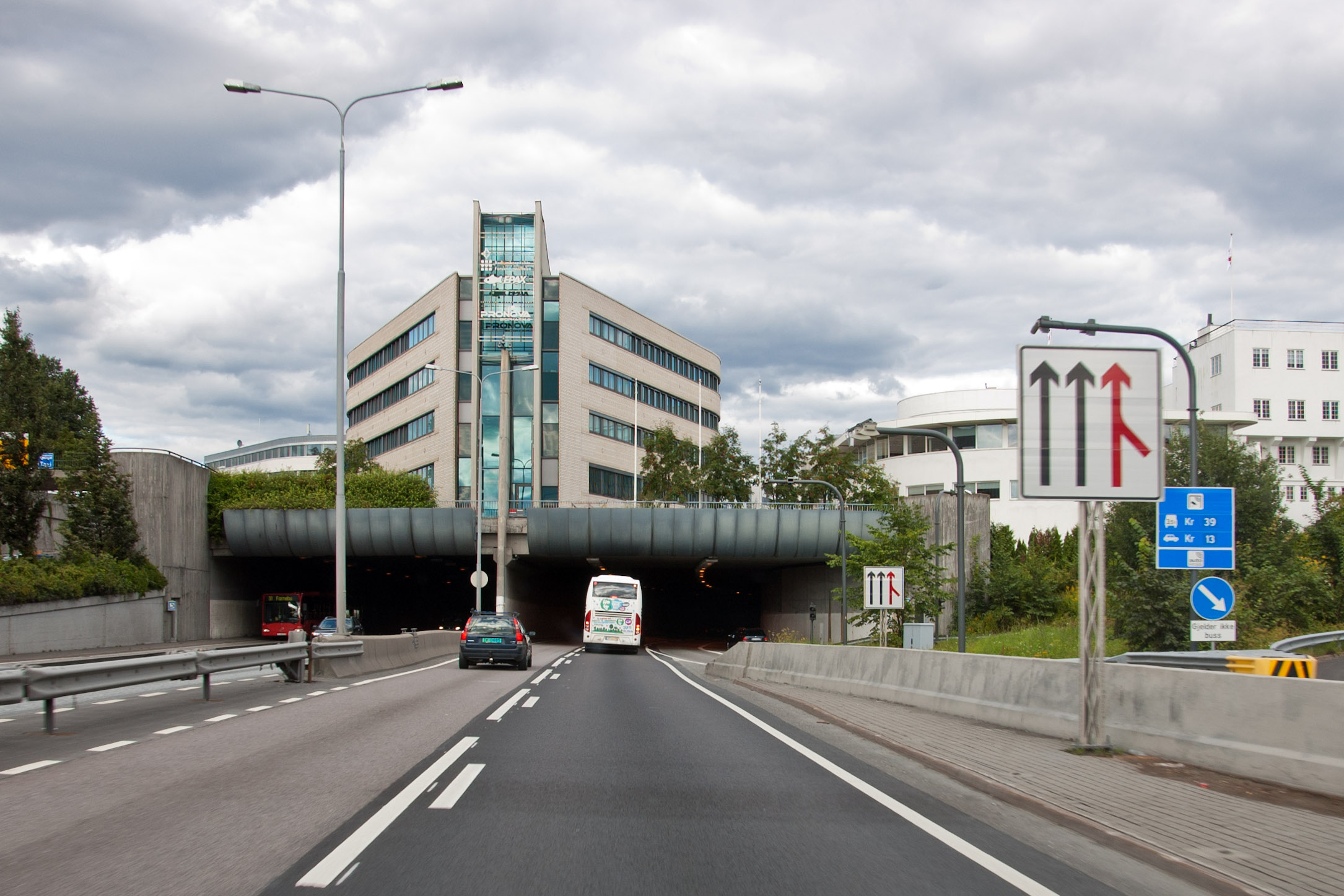 Lysakerlokket road tunnel, E18 in Bærum, Akershus, Norway.